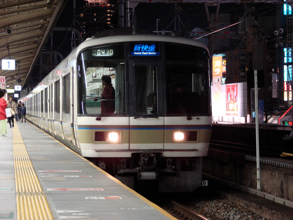 JR West 221 series EMU for the Special Rapid Service